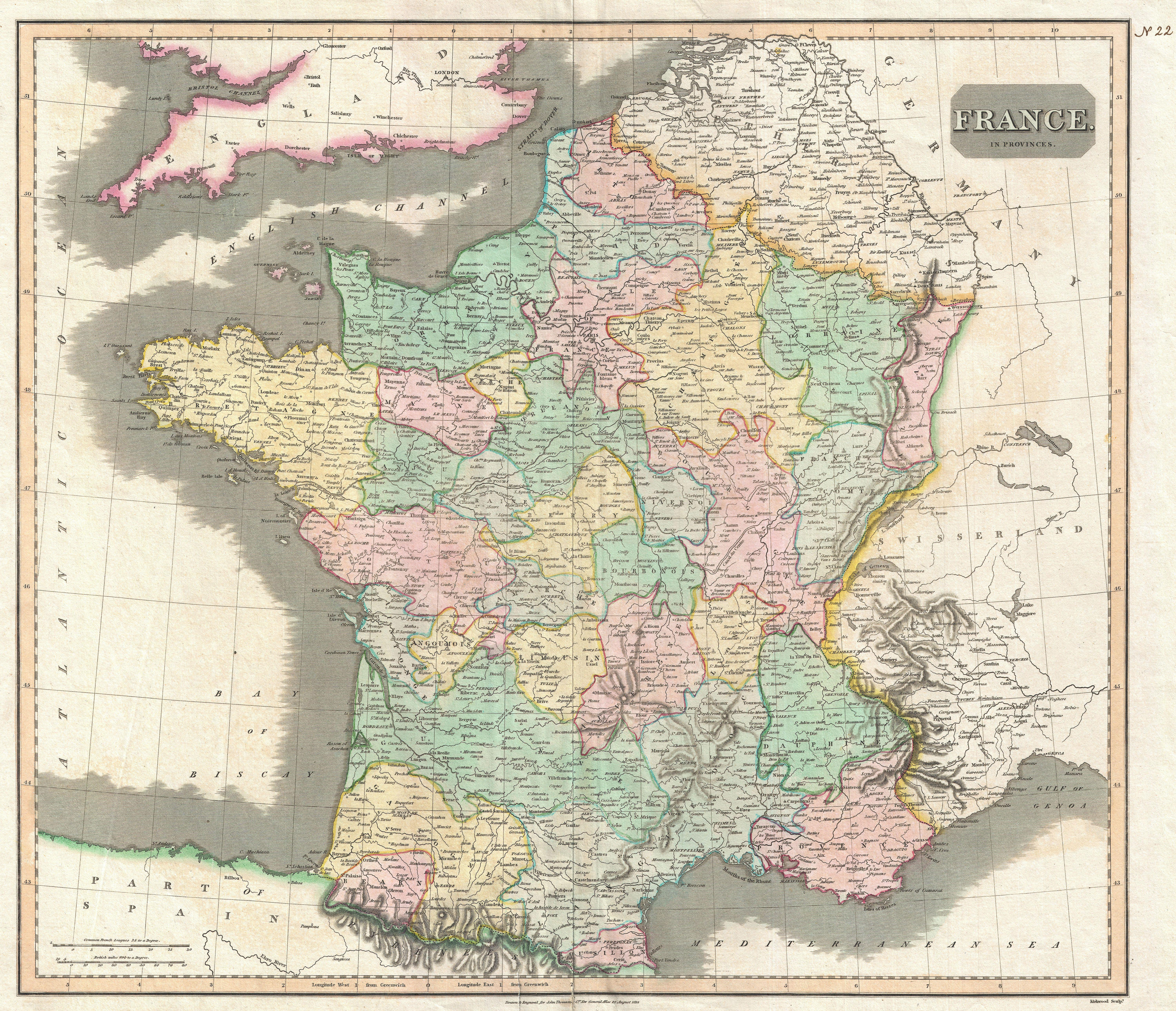 This hand colored map is a steel plate engraving, dating to 1814 by the important English mapmaker John Thomson. It depicts France divided into its color coded departments. Thomson maps are known for their stunning color, awe inspiring size, and magnificent detail. Thomson’s work, including this map, represents some of the finest cartographic art of the 19th century.